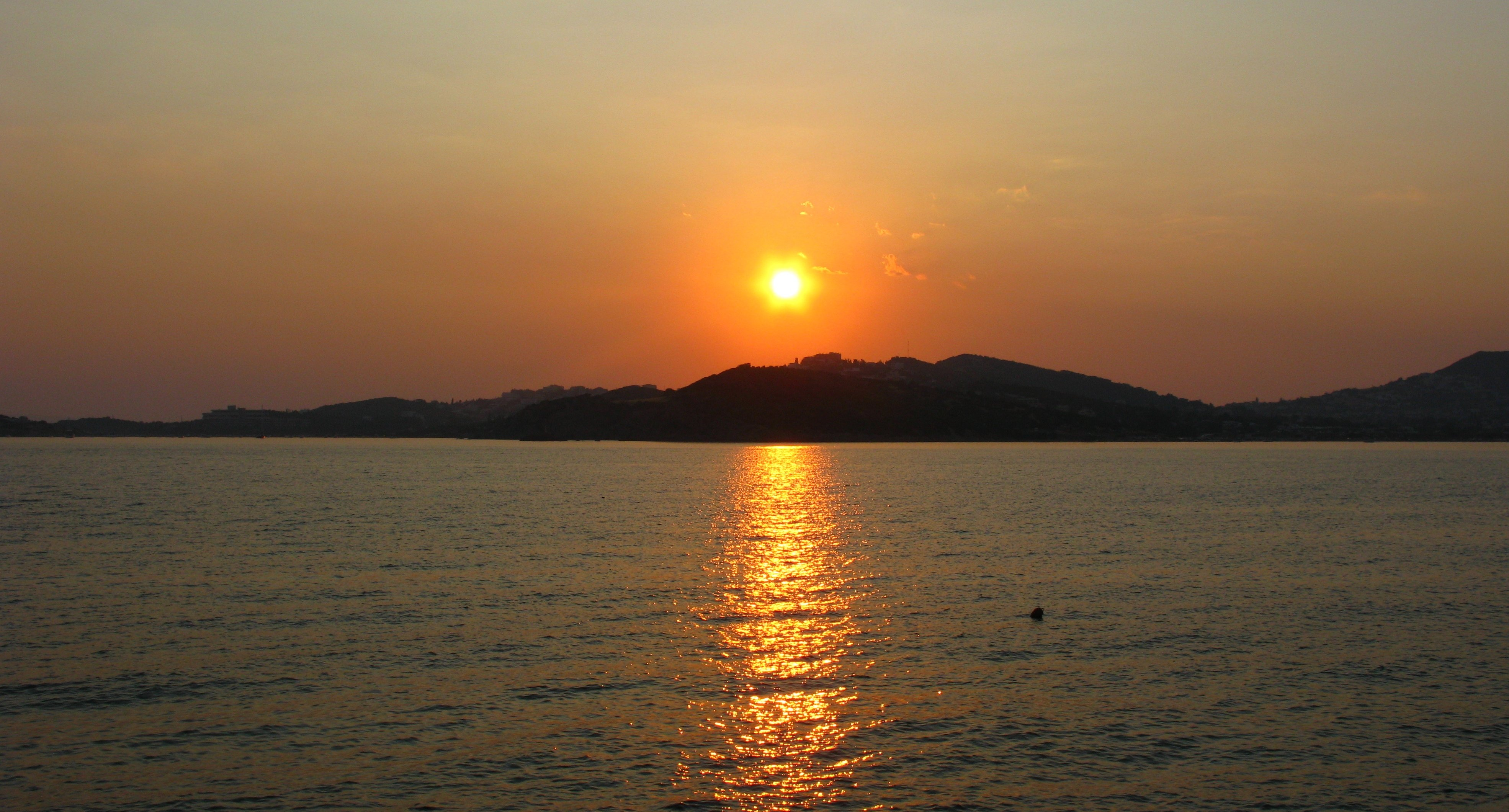 Sunset - view from Anavyssos, Greece